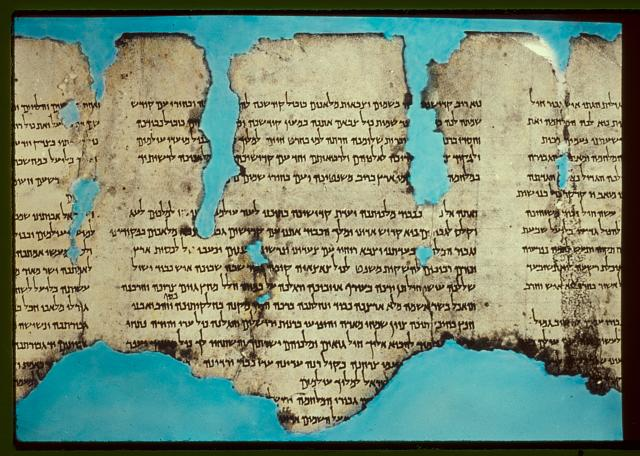 A photograph of the War Scroll photographed by Eric Matson of the Matson photo service.